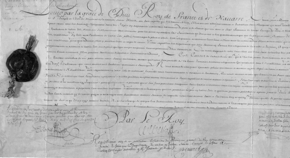 Letters Patent written by Louis XIV of France exhibited in the Museum of Religious Hospitallers of Hôtel-Dieu de Montréal.